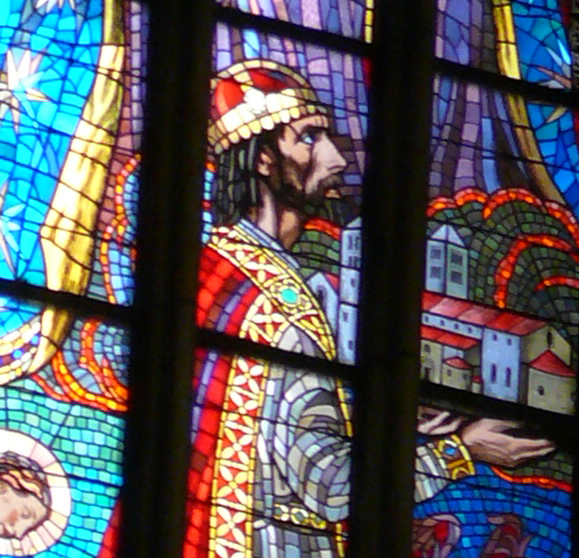 Spytihnev II.